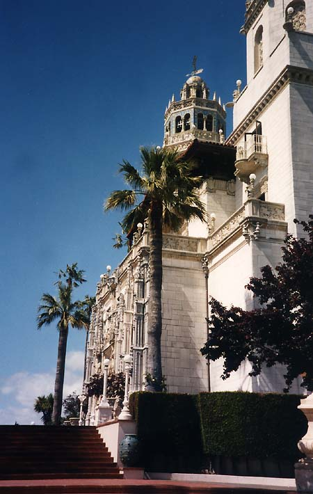 Photo of Hearst Castle facade